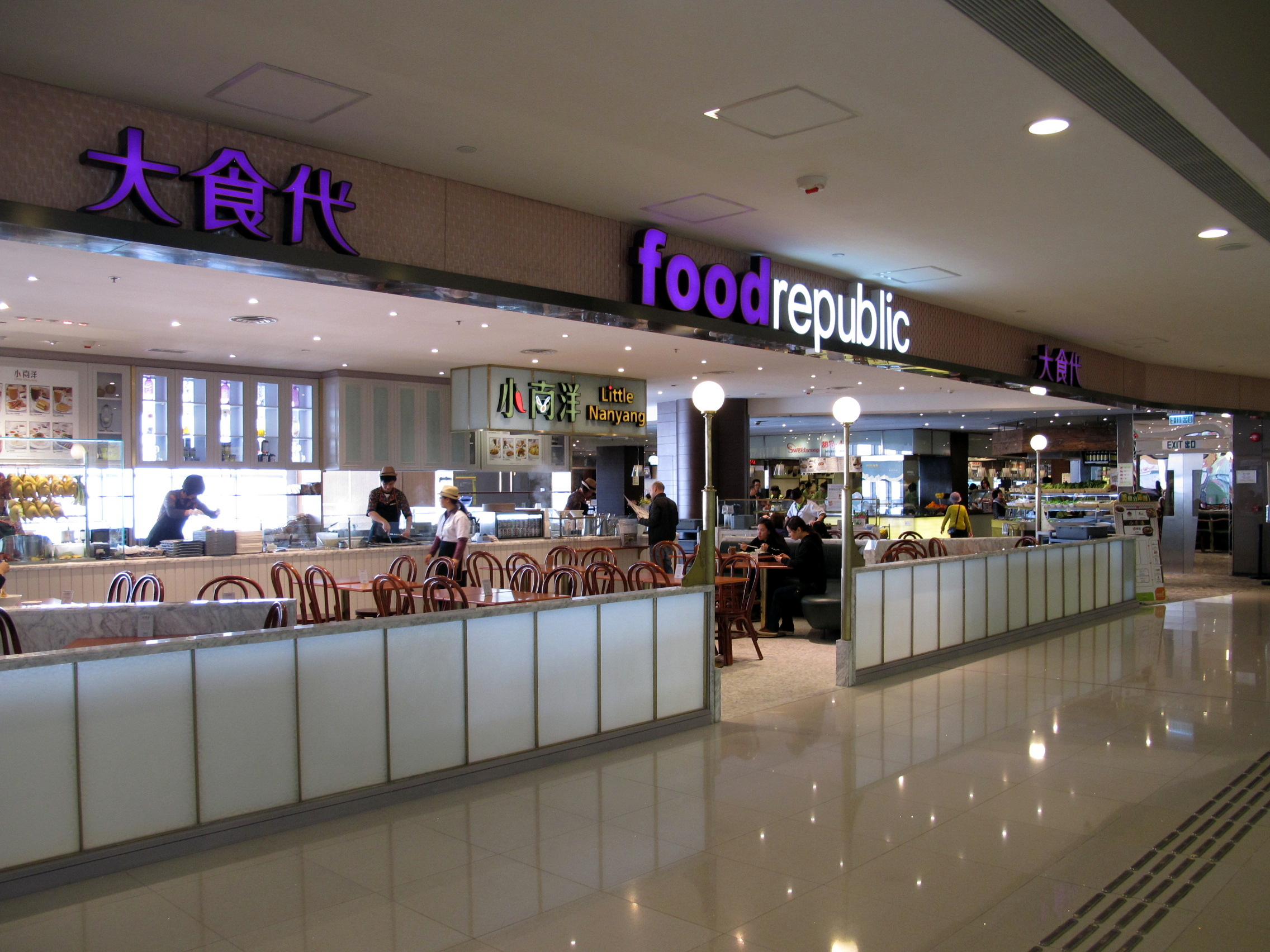 Domain Mall foodrepublic